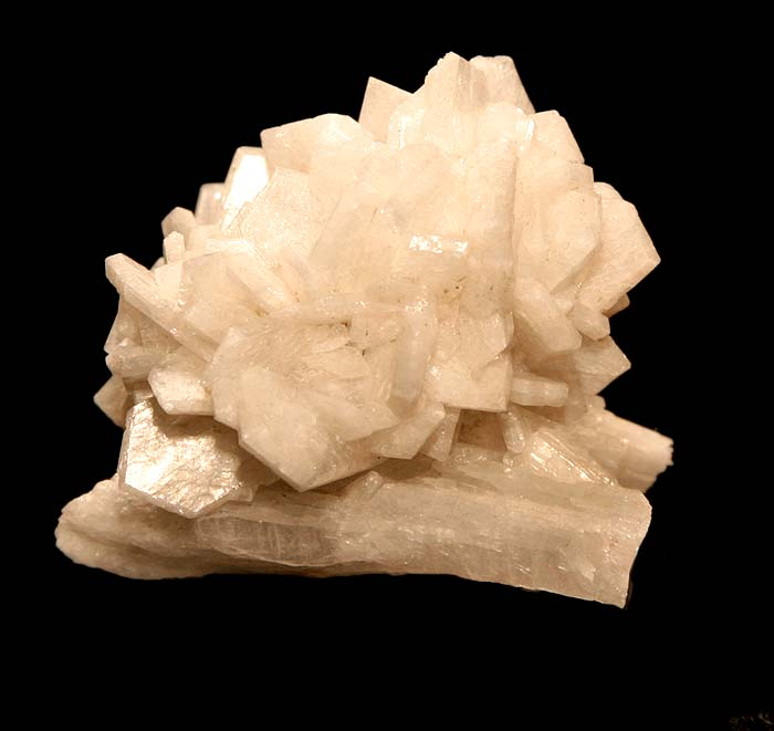 Barrerite Locality: Rocky Pass, Kuiu Island, Sitka Borough, Alaska, USA (Locality at ) Barrerite is a rare zeolite species related to stilbite, but found in just a few localities and not nearly as common. This specimen is from a find of the late 90's which really set a new standard for the species. It is, also, an aesthetically attractive specimen in its own right. 4.4 x 3.4 x 3.1 cm